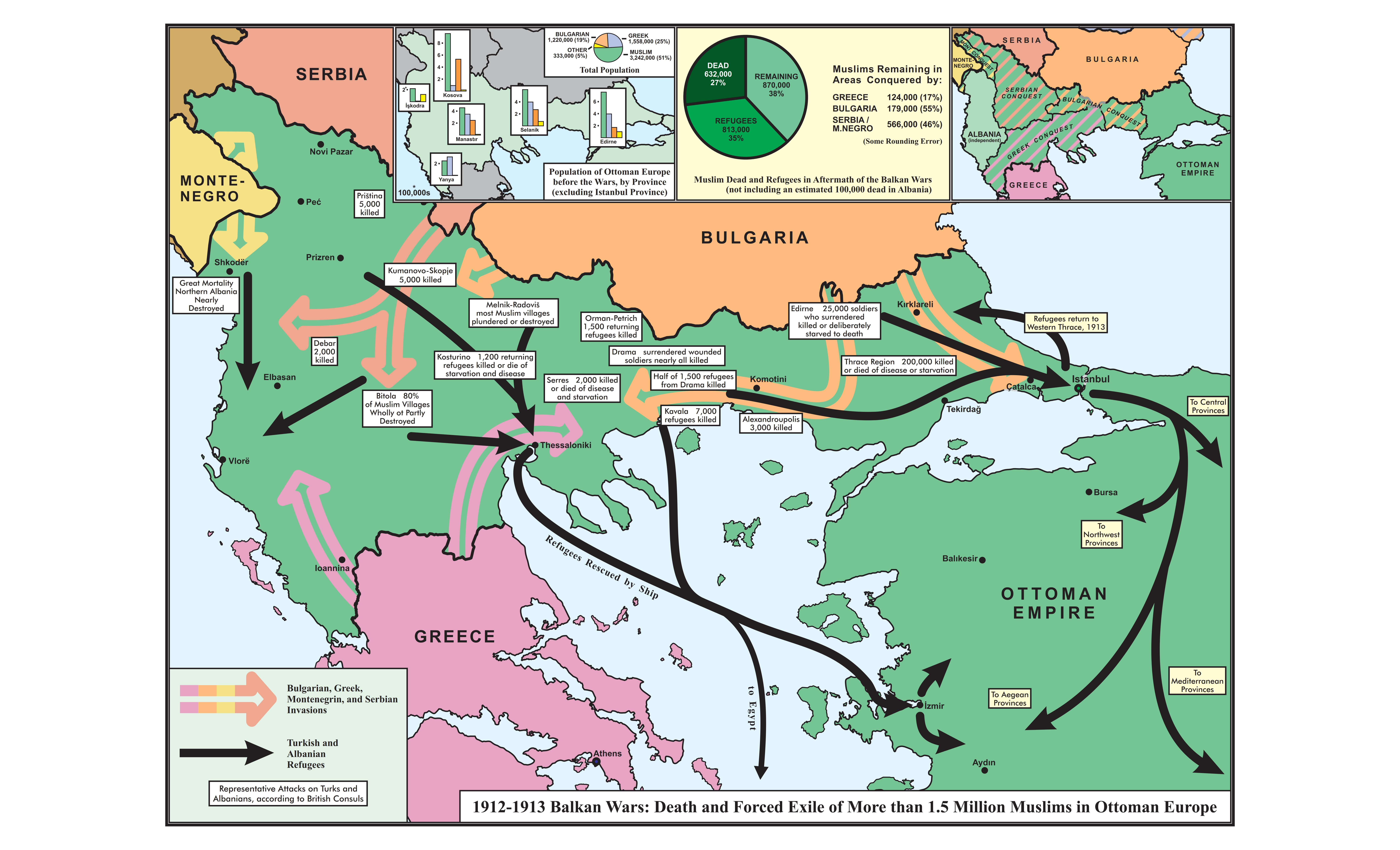 مناطق هجوم دول البلقان خلال حرب البلقان الاولى 1912-1913 ، و خطوط نزوح اللاجئين و المُهَجَّرين المسلمين من القسم العثماني الأوروبي